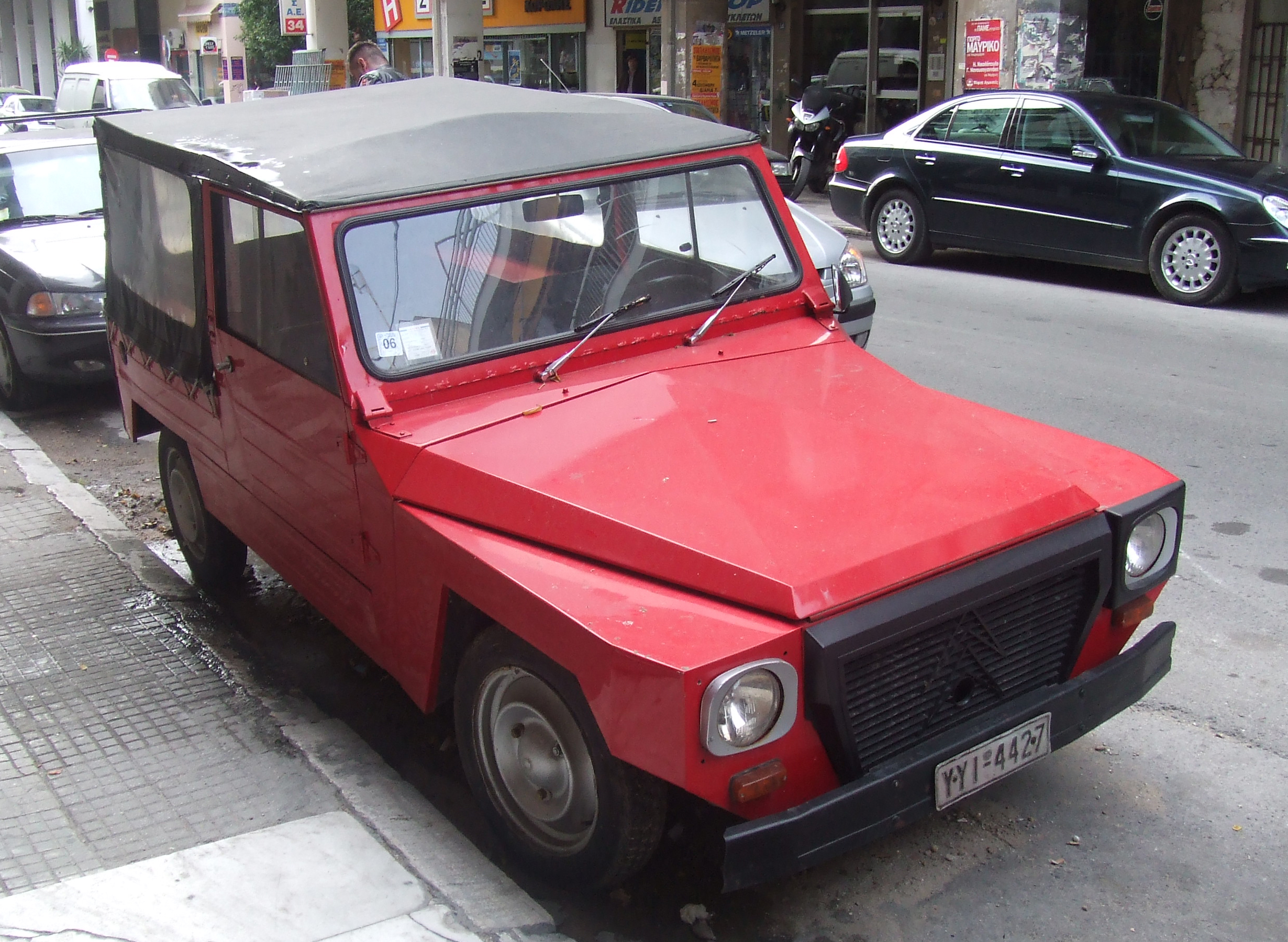 Citroen Pony, a car produced on a modified 2CV chassis in Greece. Photo: Christos Vittoratos